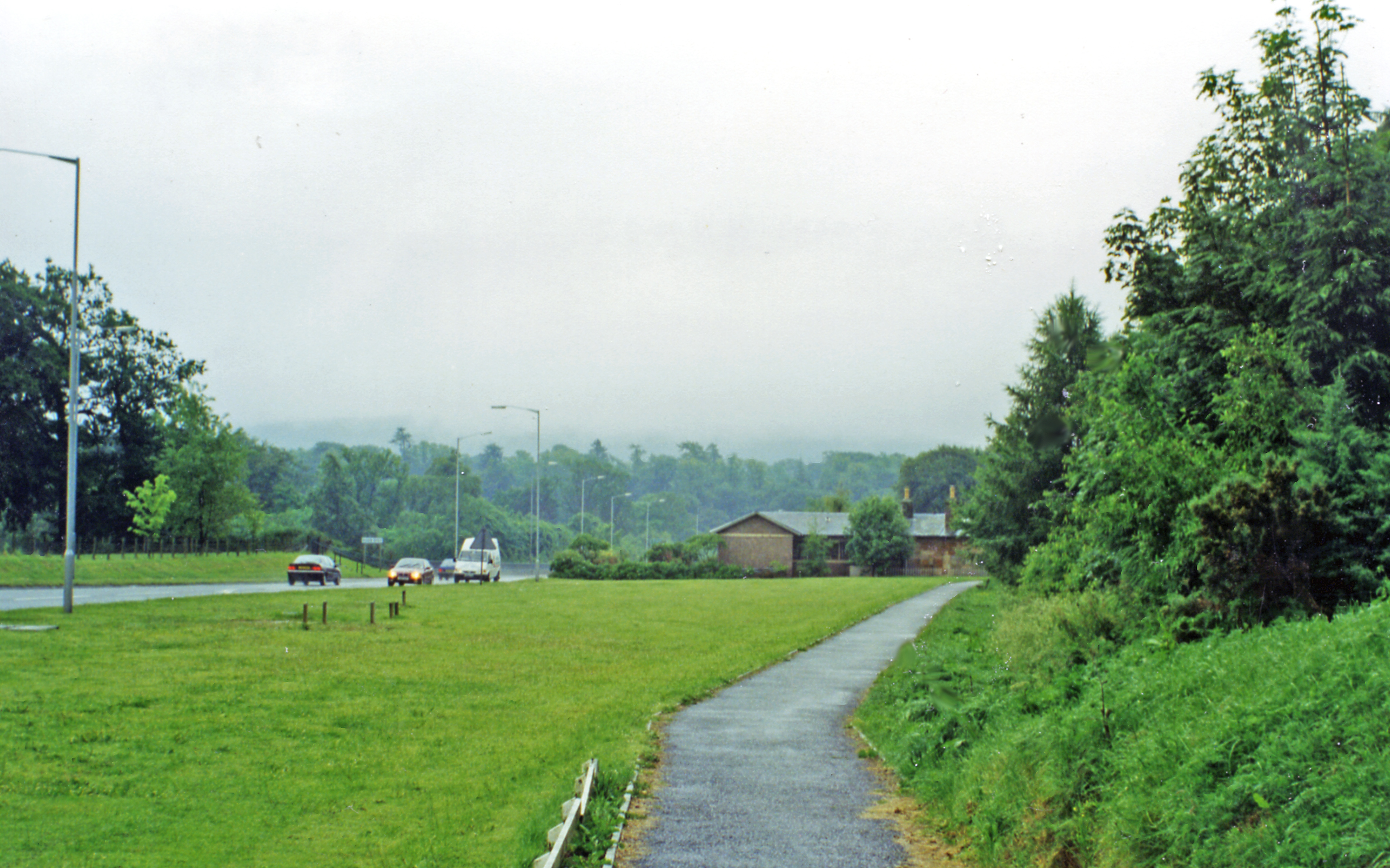 Approximate site of former Fochabers Town station, 1997. View eastward, on the A96 approaching the Spey Bridge. Fochabers Town station, the terminus of the ex-Highland Railway branch from Orbliston Junction, had been on the right: it was closed to passengers from 14/9/31 but the branch survived for goods until 28/3/66.